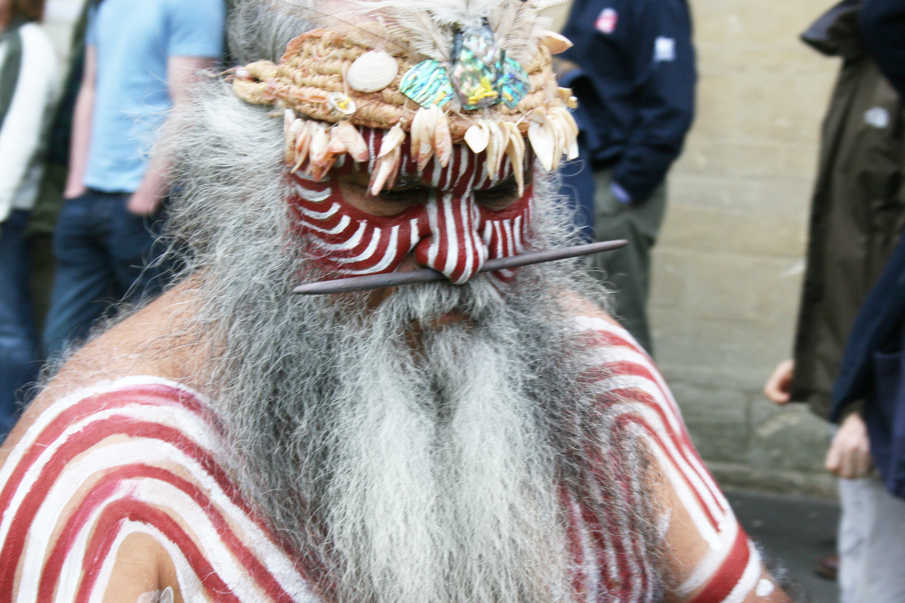 Smoking Ceremony 2 Major Sumner, a Ngarrindjeri elder, in a smoking ceremony, as part of the repatriation of Old People remains.